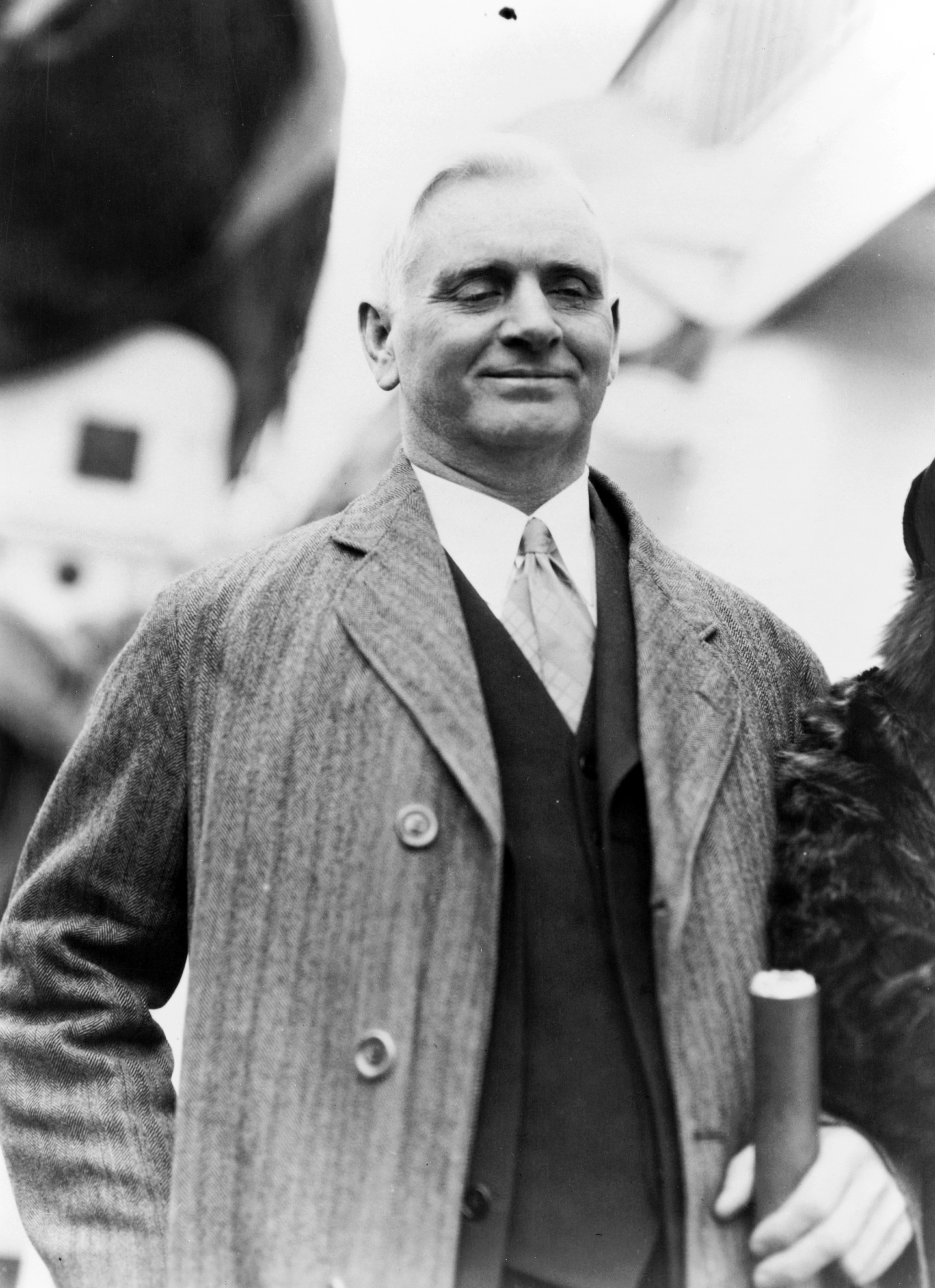 Thomas P. Gore, blind ex-senator